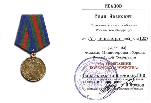 Medal "For Strengthening Military Cooperation". Awarded to military and civilian personnel of the Ministry of Defence of the Russian Federation, and in some cases to ordinary citizens of Russia or foreign citizens for merits in strengthening the brotherhood of arms and fostering military cooperation with friendly nations. Reverse inscription reads «МИНИСТЕРСТВО ОБОРОНЫ РОССИЙСКОЙ ФЕДЕРАЦИИ» (Ministry of Defence of the Russian Federation). Type 1 medal (left) was awarded between 1995 and 2009. The type 2 award with new ribbon and reverse has been awarded since 2009.